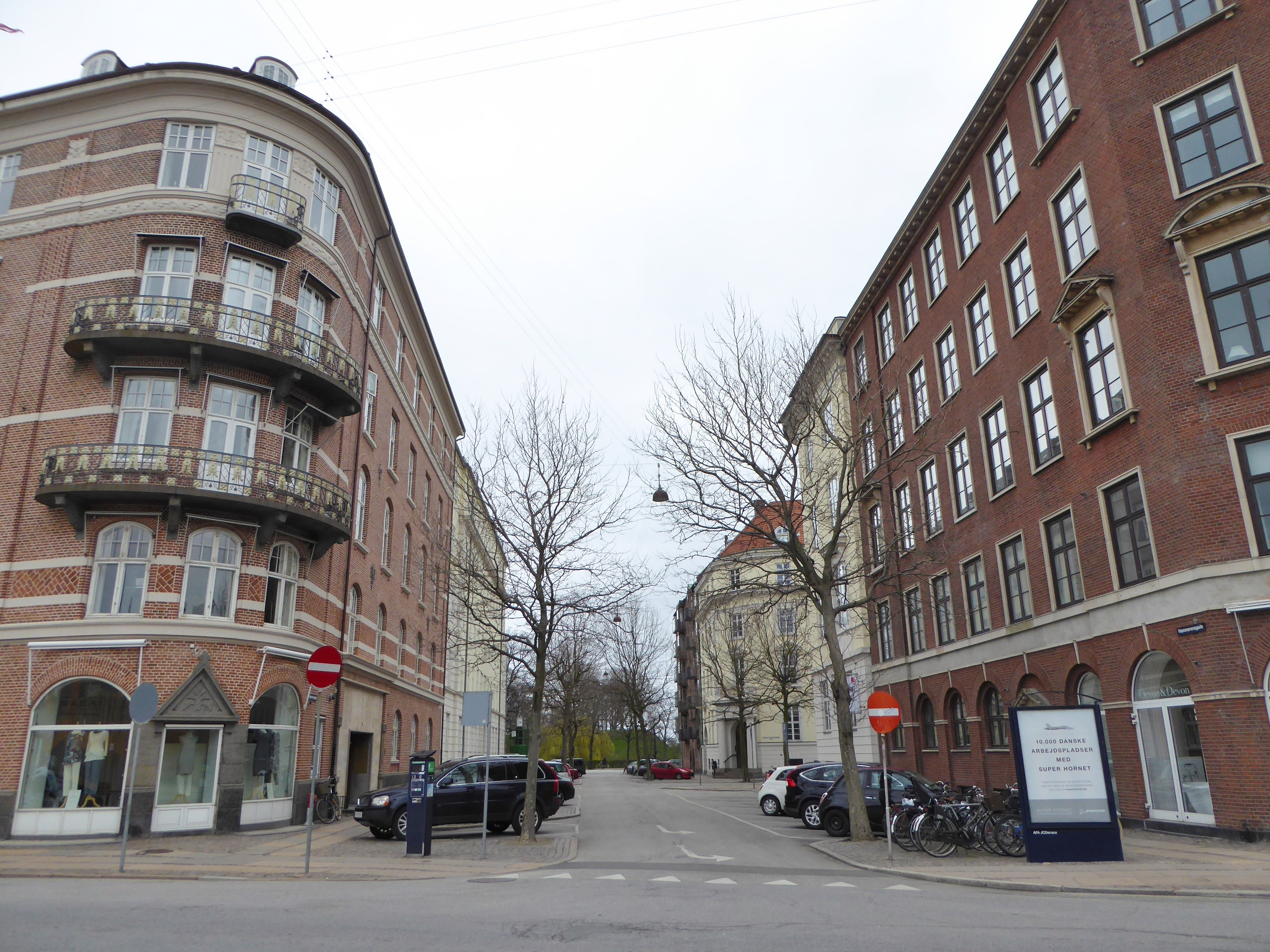 The street Hammerensgade at Store Kongensgade in Indre By in Copenhagen.